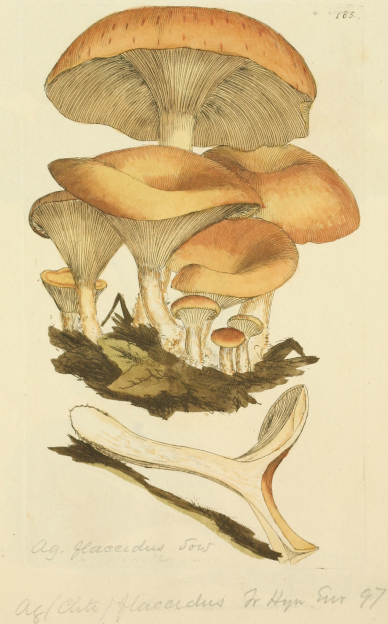 This is a plate from James Sowerby's Coloured Figures of English Fungi or Mushrooms.